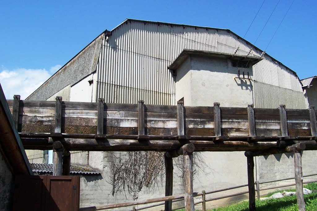 St Mary, Bienno, Val Camonica